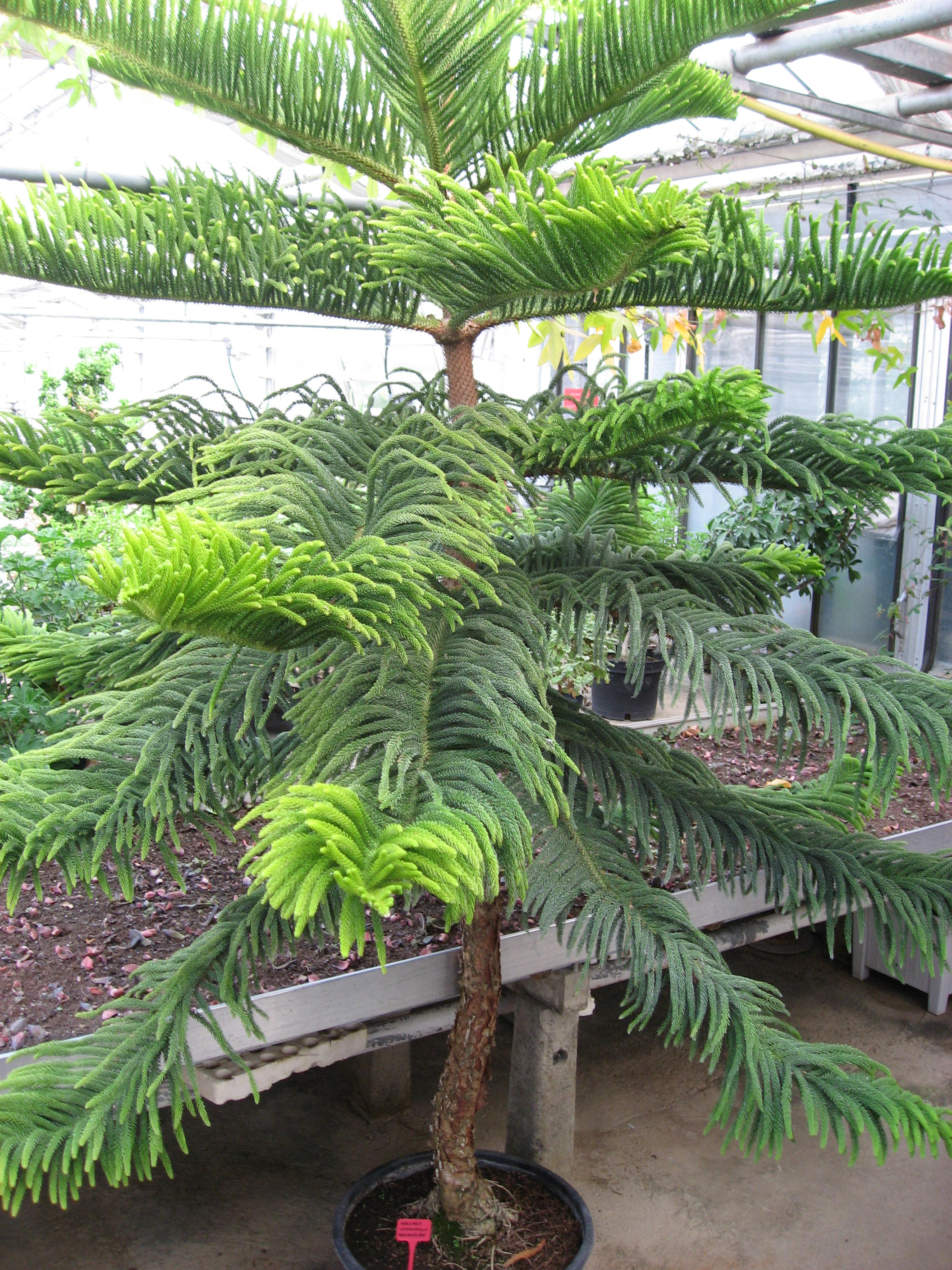 Araucaria heterophylla in Centre Horticole de la Ville de Paris following the garden's tag. Identification issue: Many A. columnaris are wrongly identified as A. heterophylla. Map: 48° 44' 44" N 2° 20' 20" E